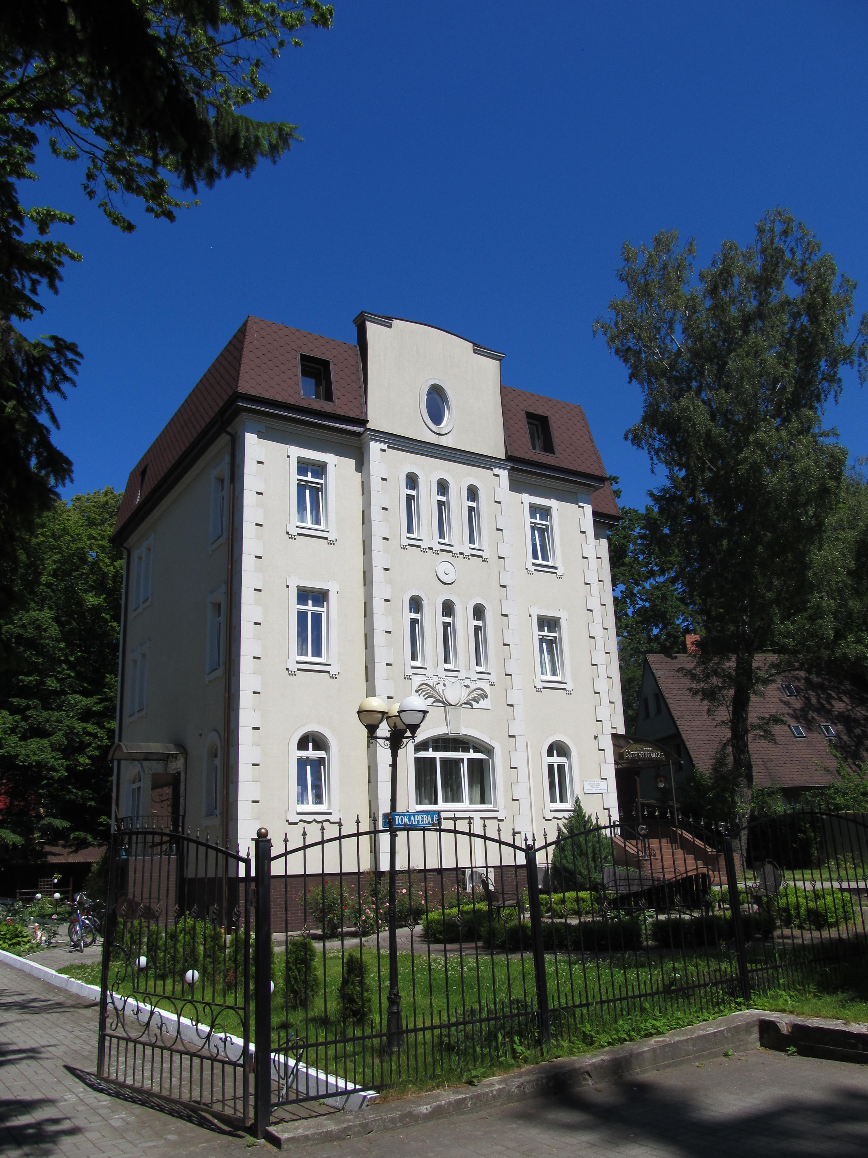 Georgenswalde Hotel (Old Villa Walderiede)